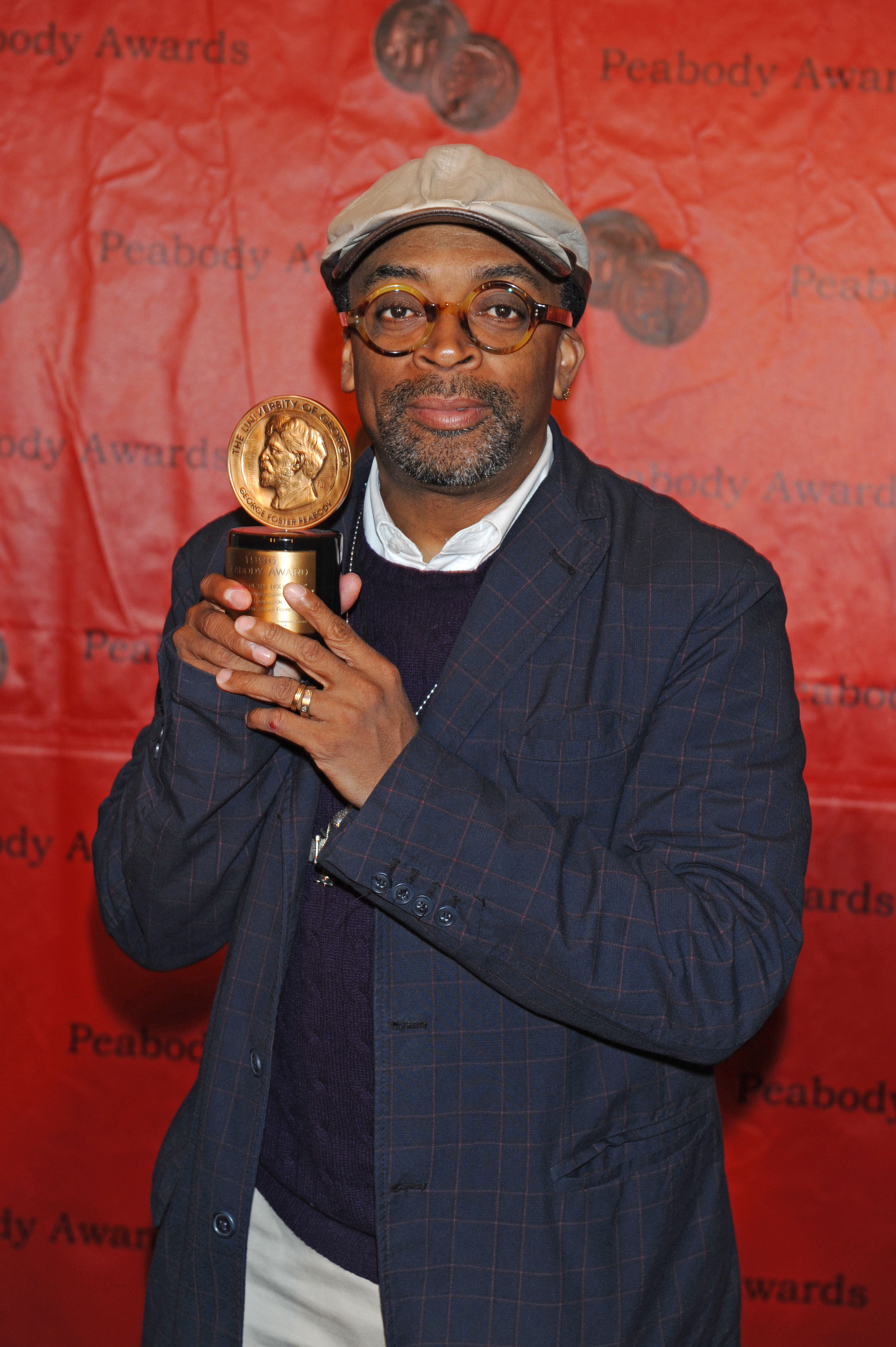 PHOTO CREDIT: ANDERS KRUSBERG / PEABODY AWARDS 70th Annual Peabody Awards Luncheon Waldorf=Astoria Hotel May 23, 2011